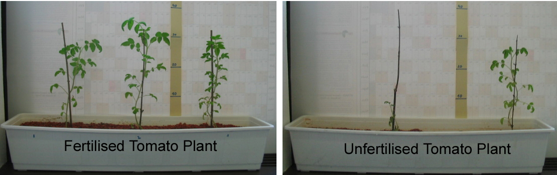 The tomato plants on the left were fertilised with urine, collected at an office building in Germany. The right tomato plants were not fertilised. The difference between both is clear: the fertilised plants were growing fast, strong and constant. The unfertilised plants were not growing constant, strong and fast (highest about 40 cm). One of the plants did not survive, the second is growing slow and weak and the third is growing in an normal mode (about 30 cm), but not that fast and strong like the fertilised plants. In order to see the effect of urine fertilization more clearly, we used very nutrient-poor soil: it is a 20/80 mixture of sand and of clay granules (to hold moisture). The pictures were taken on 10.06.2009 by P. Feiereisen.